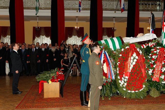 Last respects to President of Abkhazia Sergei Bagapsh.